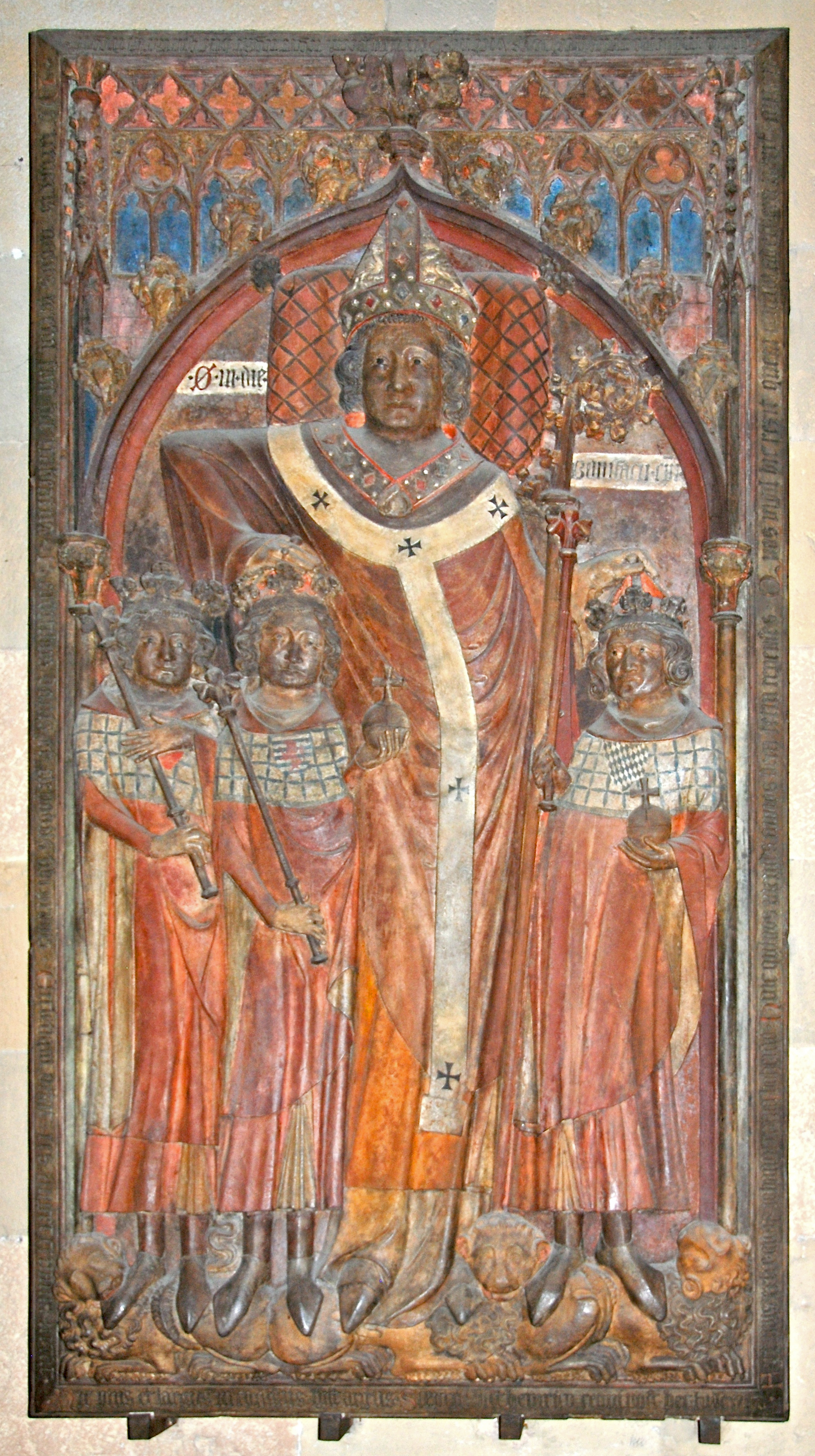 Monument (epitaph) of Peter von Aspelt in Mainz Cathedral